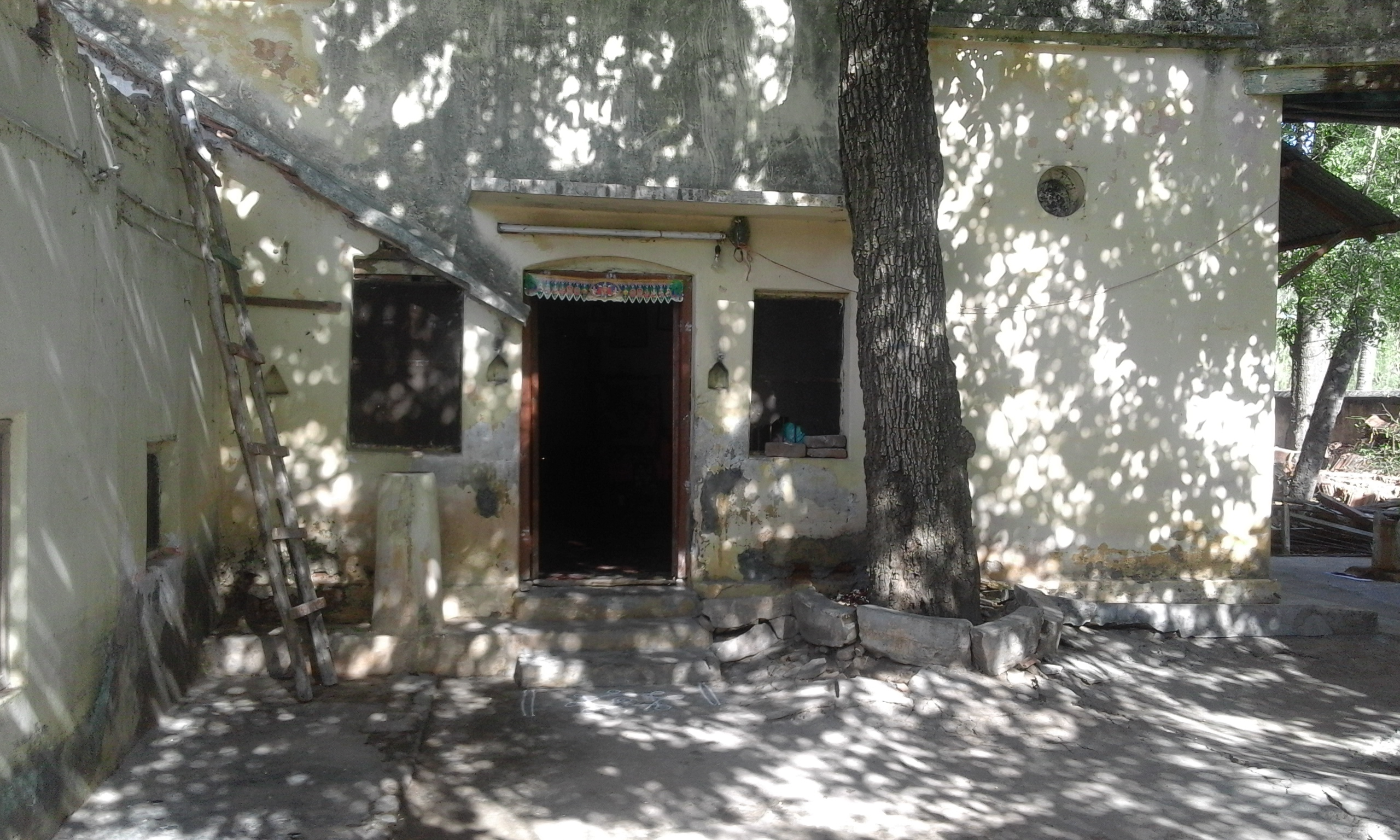 Front appearance of Sri Gnananandha Swami Mutt